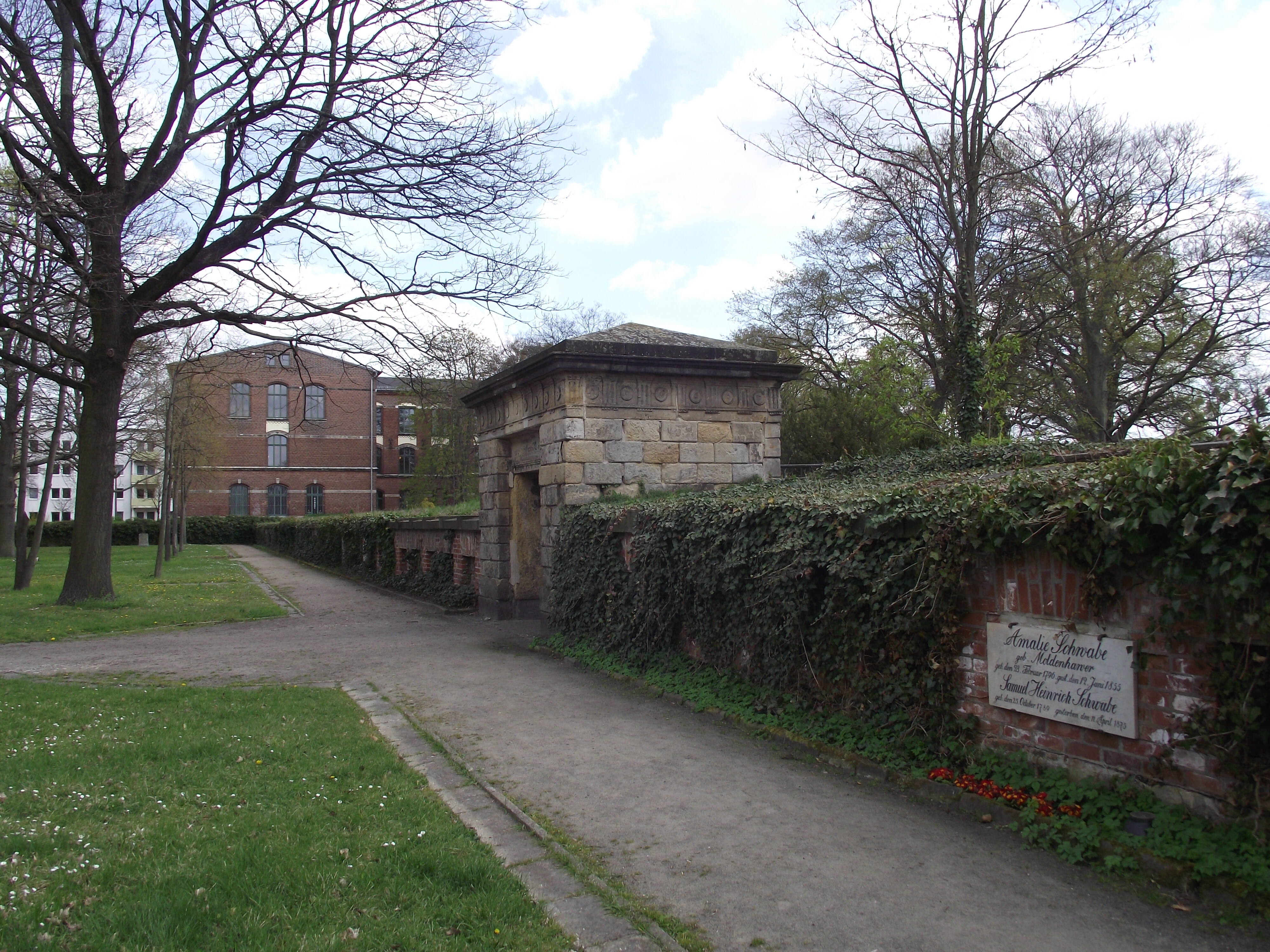 New Cemetery Dessau, 1787